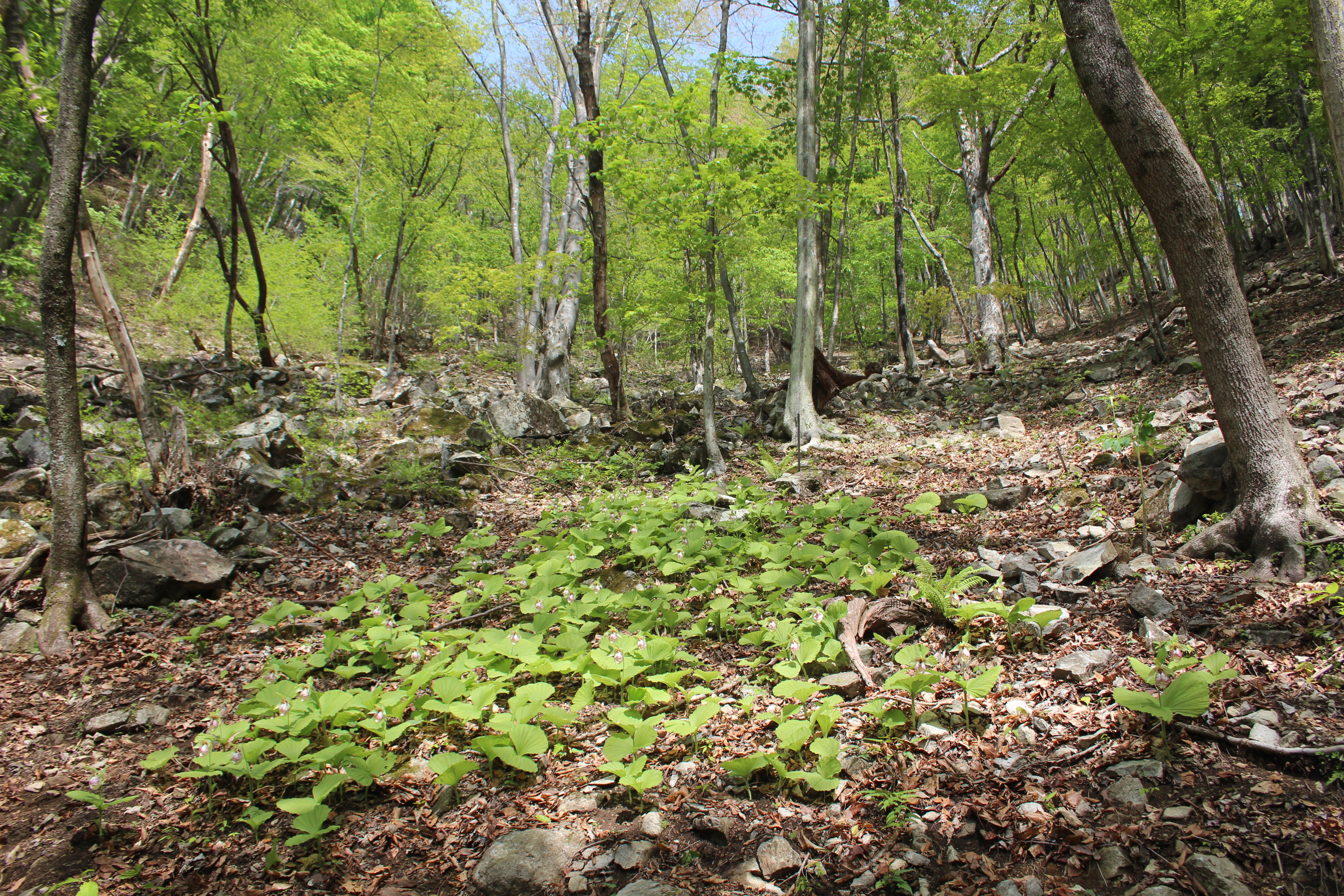 Cypripedium japonicum Thunb., in Gero, Gifu prefecture, Japan.